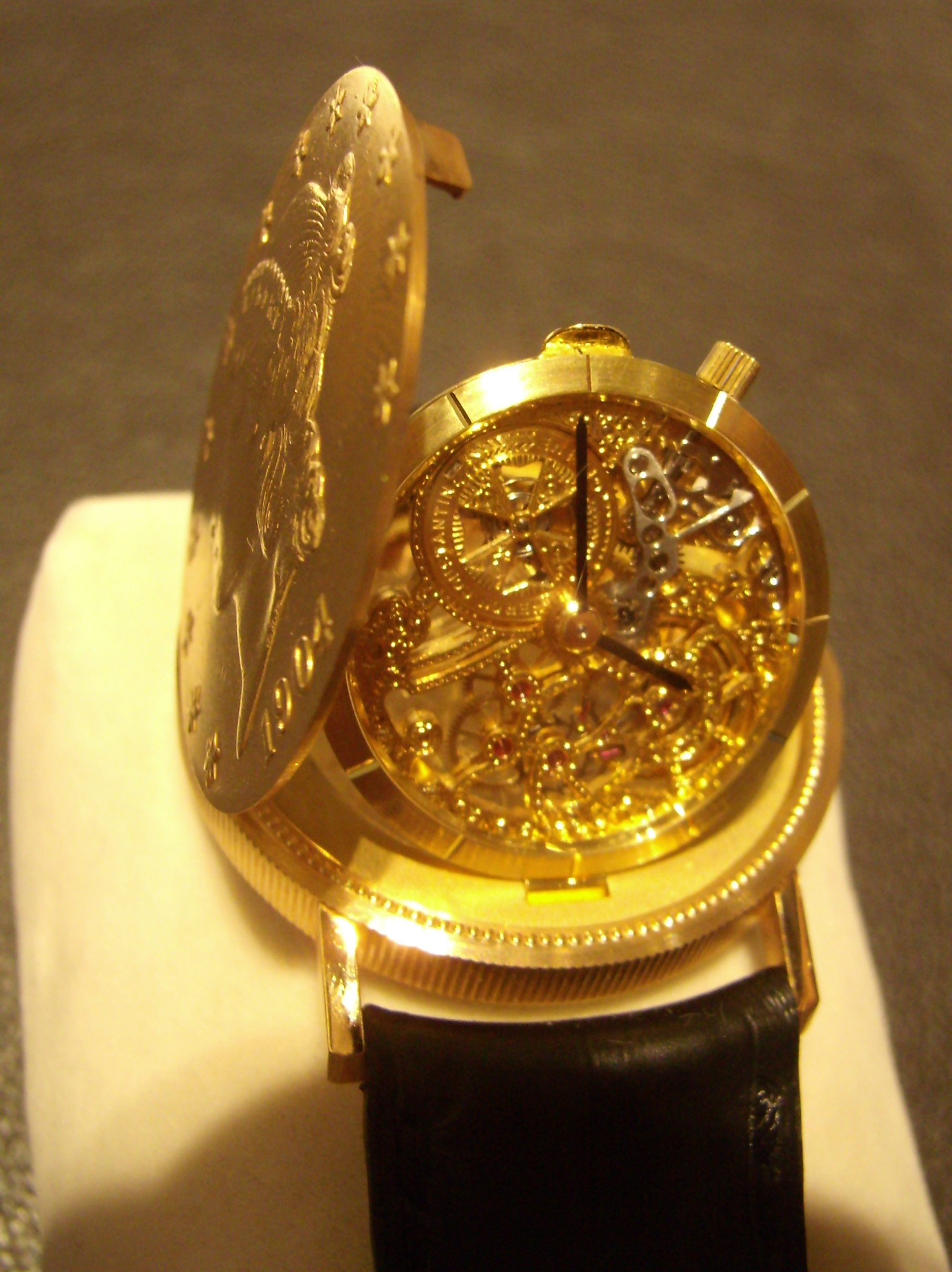 A watch mechanism inserted into a coin, to make a Coin watch.